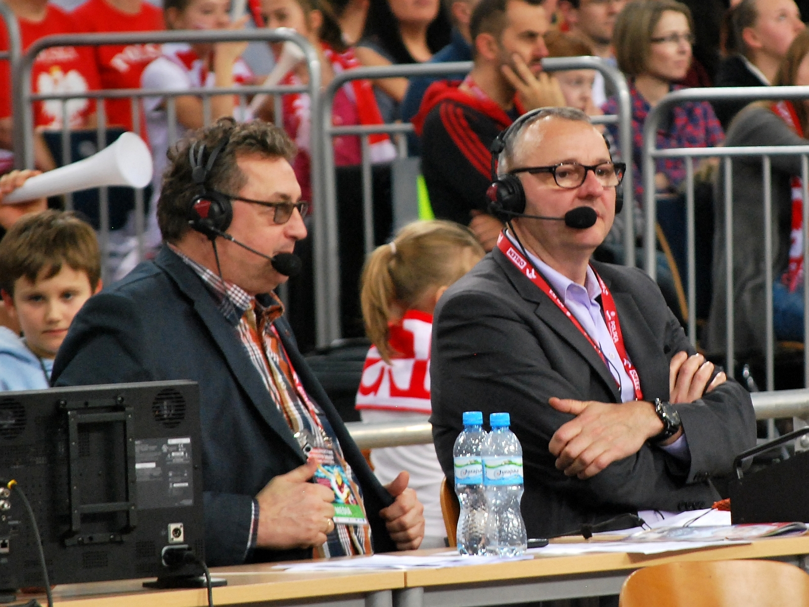 FIVB World Championship European Qualification Women Łódź January 2014. Wojciech Drzyzga & Tomasz Swędrowski commentators of Polsat Sport